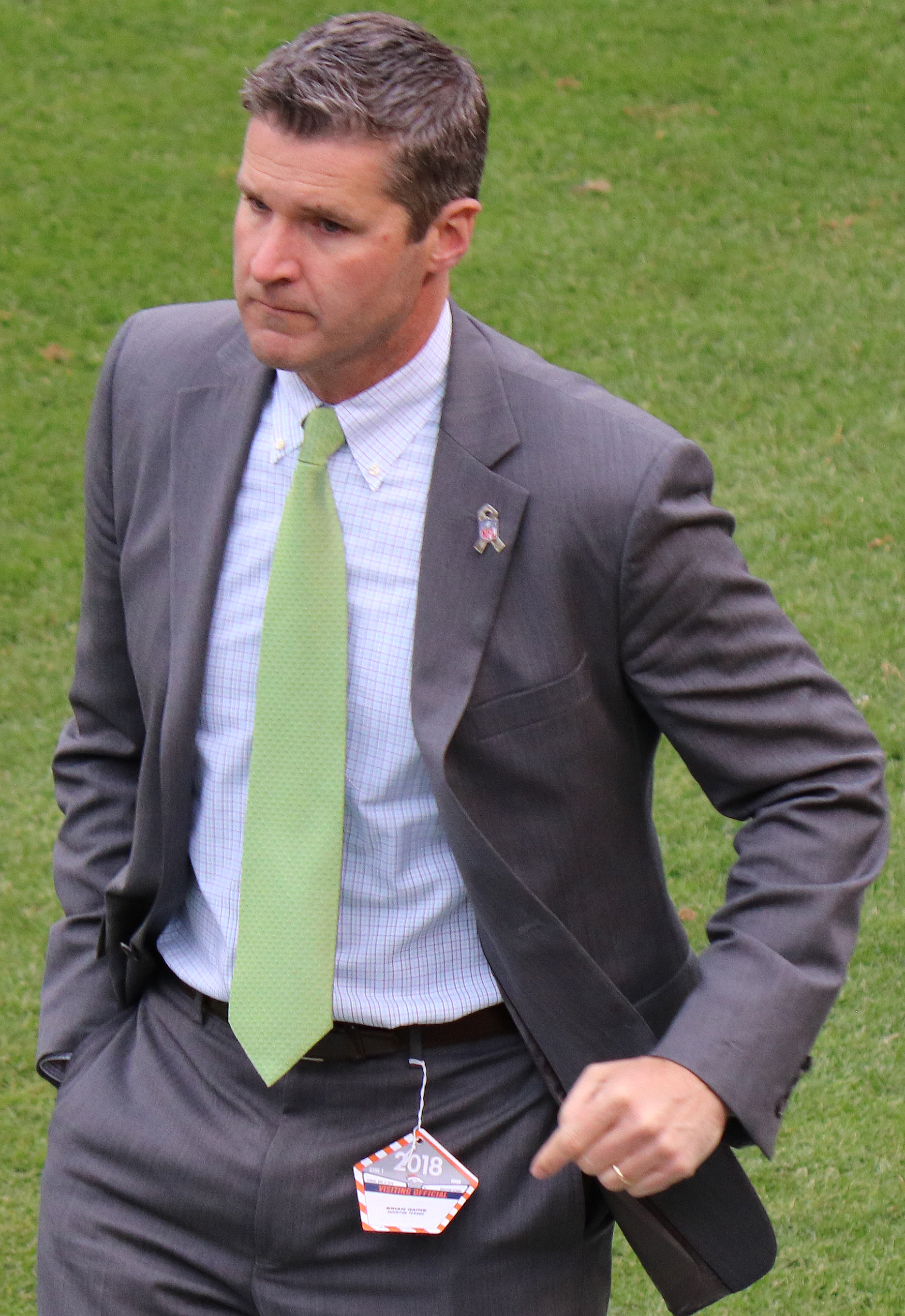 Brian Gaine, the general manager of the Houston Texans American football team.